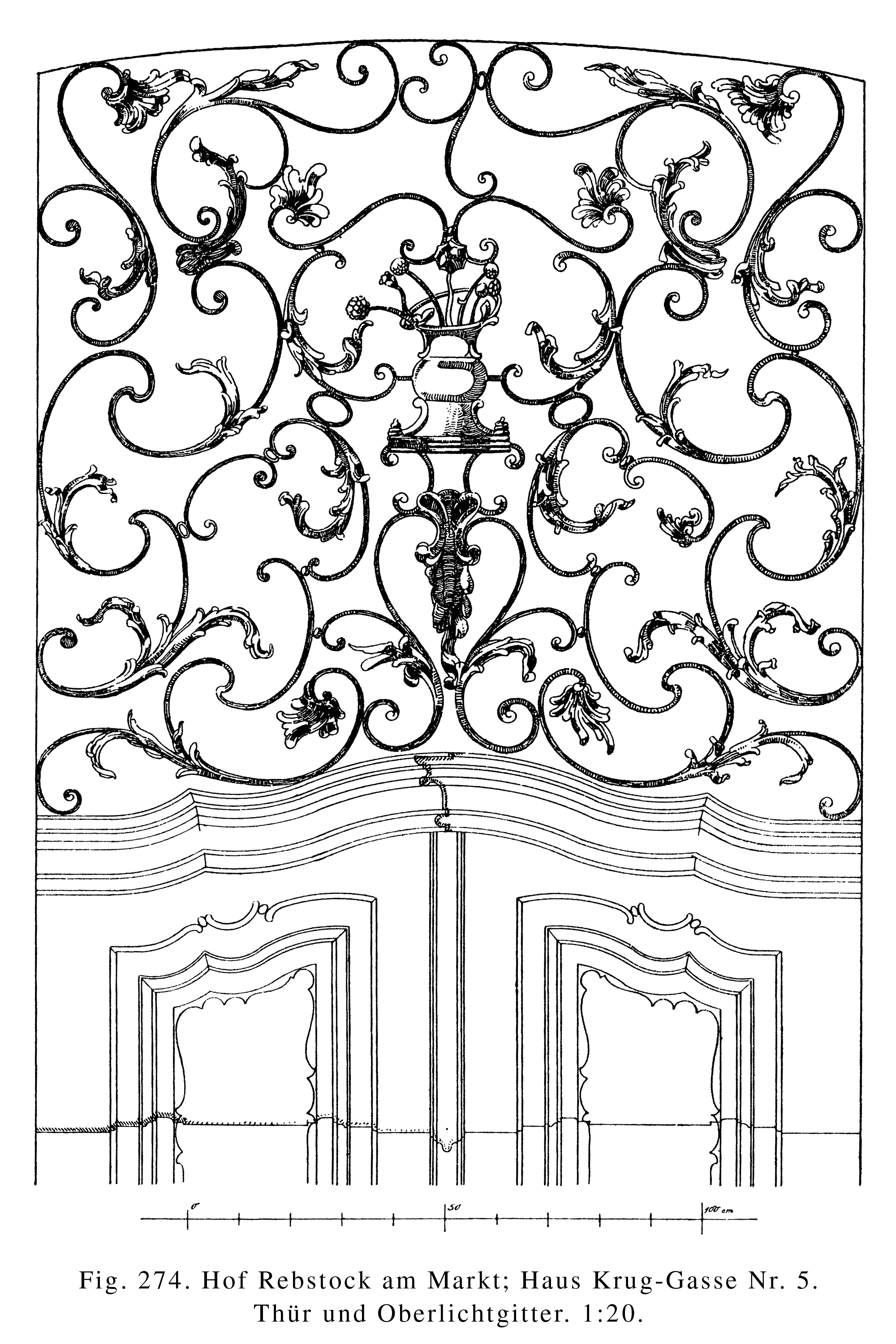 Frankfurt on the Main: Hof Rebstock am Markt (Court Rebstock at the Market), door and grating of the fanlight of the house Im Rebstock 5 (At the Rebstock 5)